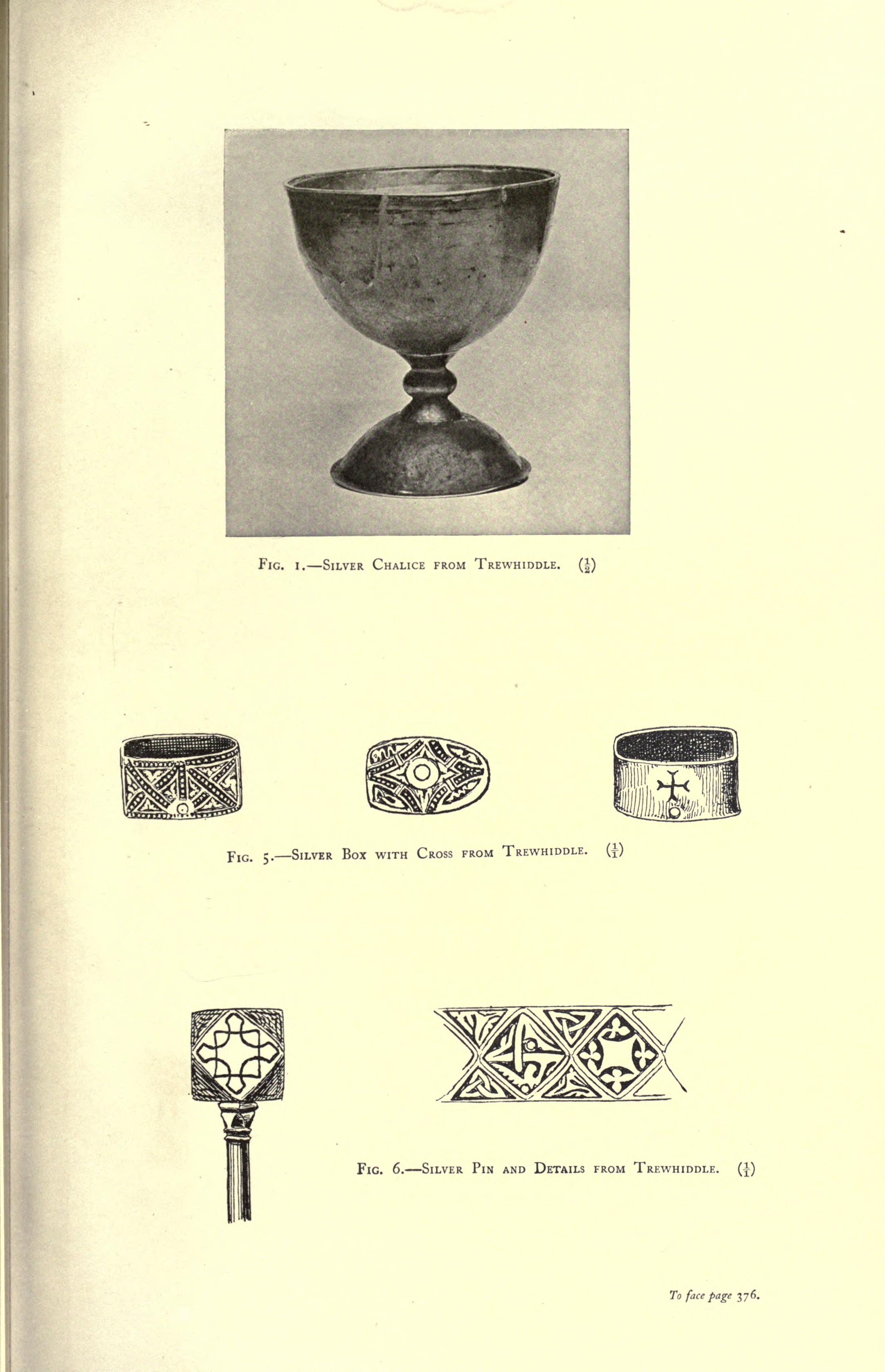 The Victoria history of the county of Cornwall. Edited by William Page.